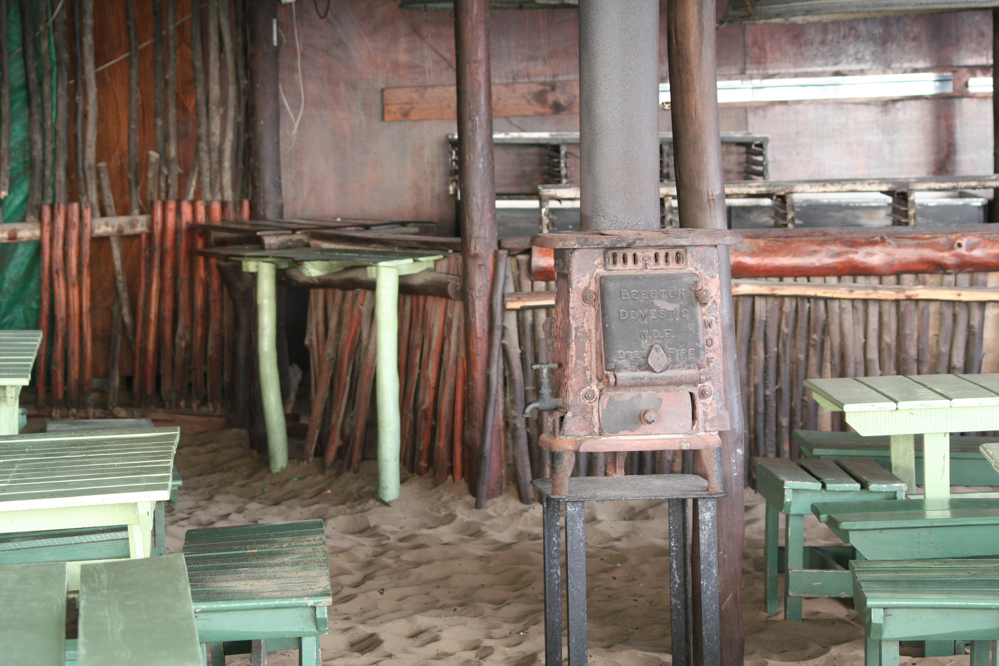 A boiler by the Beeston Boiler Company. Still in active use at the Walskipper restaurant in Aston Bay, Eastern Cape, South Africa